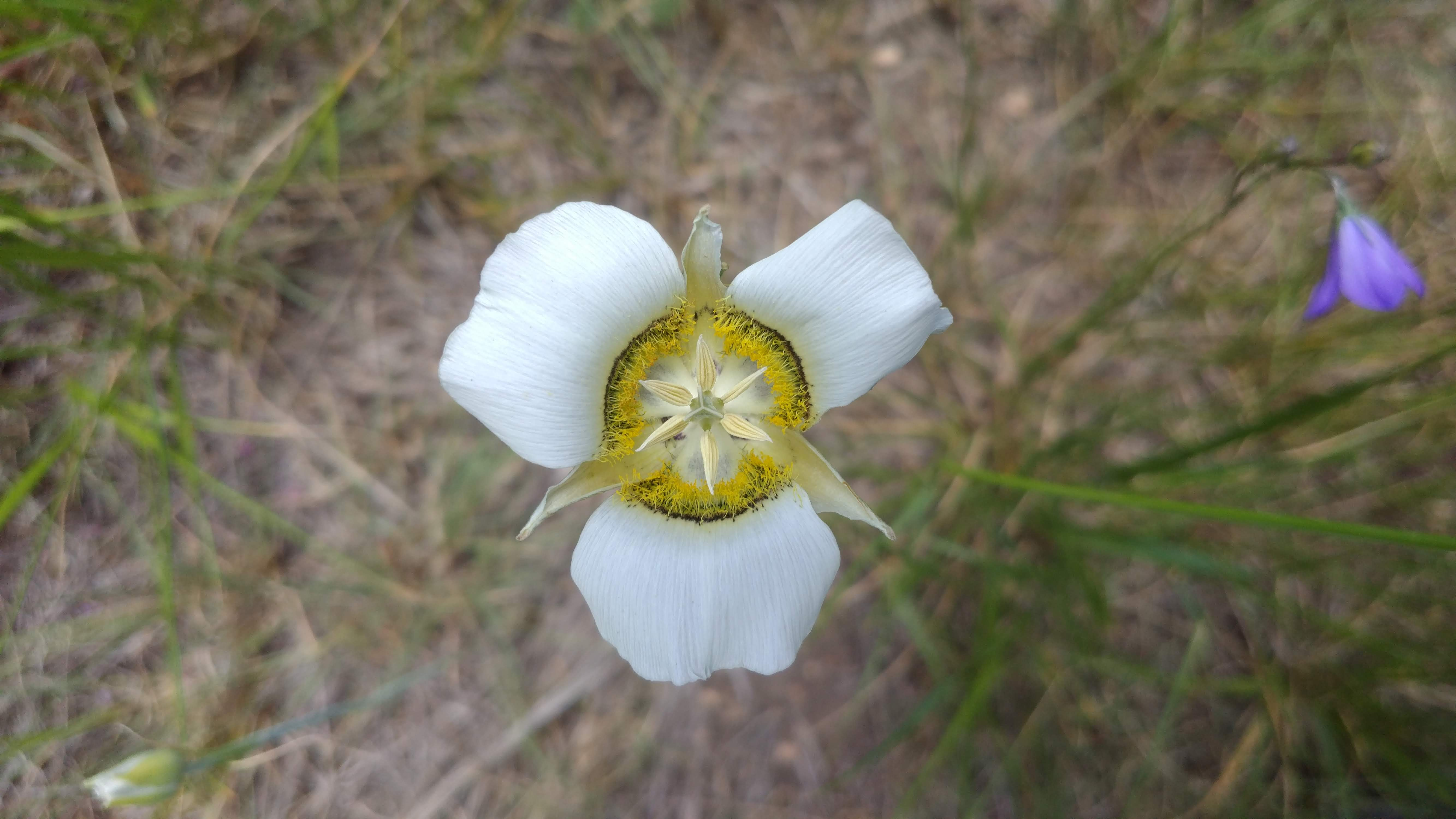 A flower of Calochortus gunnisonii (Gunnison's mariposa lily) seen from above. This was growing in a clearing in Colorado above 7000 ft.